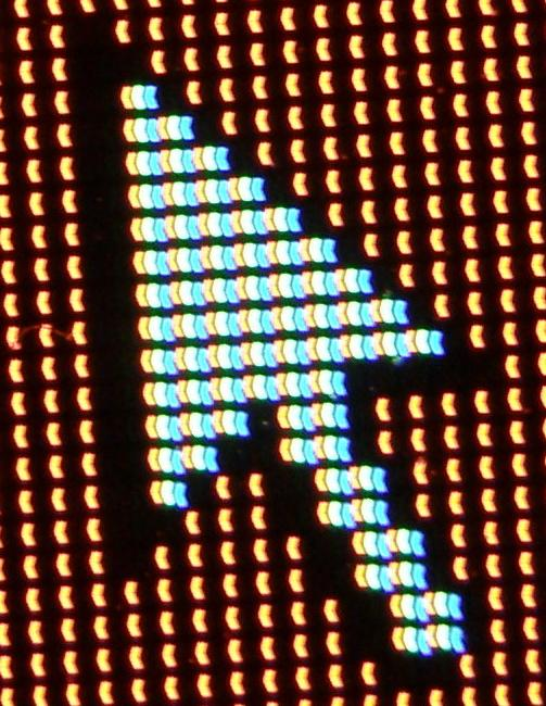 S-IPS, 20WGX2PRO monitor